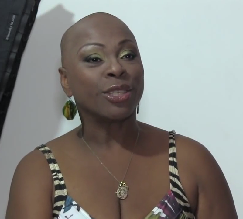 Costa Rican actress Thelma Darkings in an interview with journalist Lizeth Castro